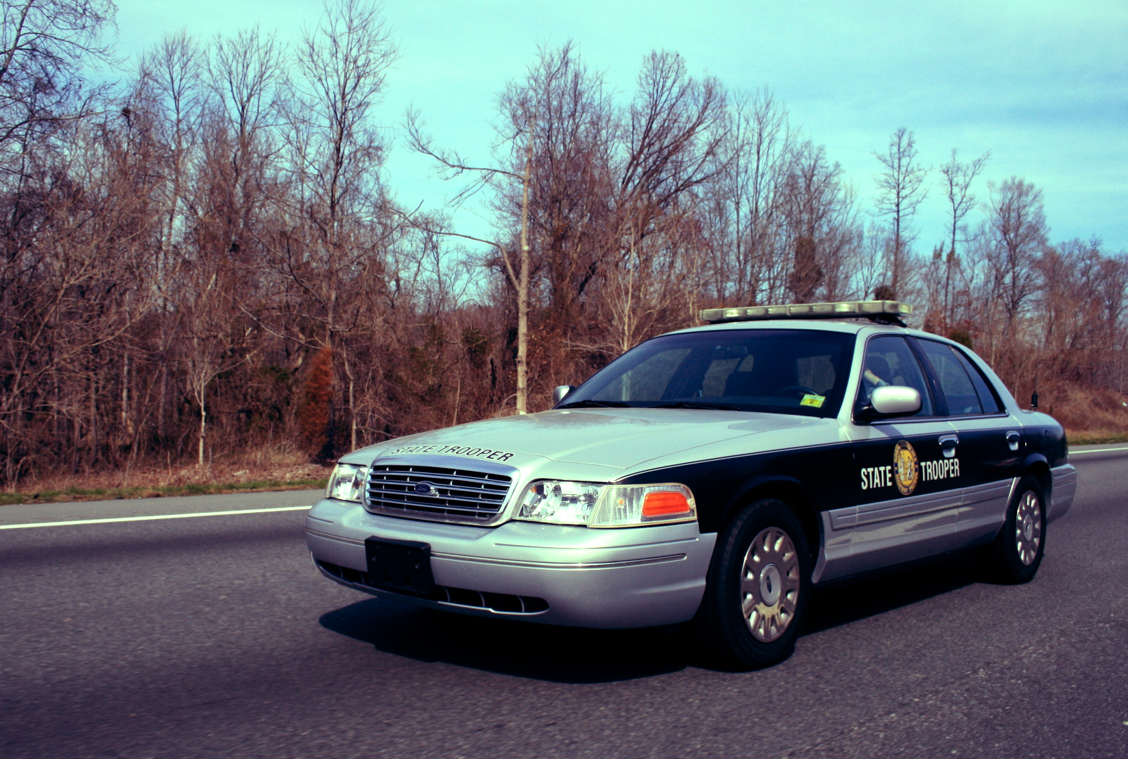 A North Carolina State Trooper talking on his cell phone while driving on Interstate 85 in North Carolina.